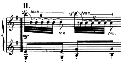 Second variation of Le festin d'Ésope, composed by by Charles-Valentin Alkan